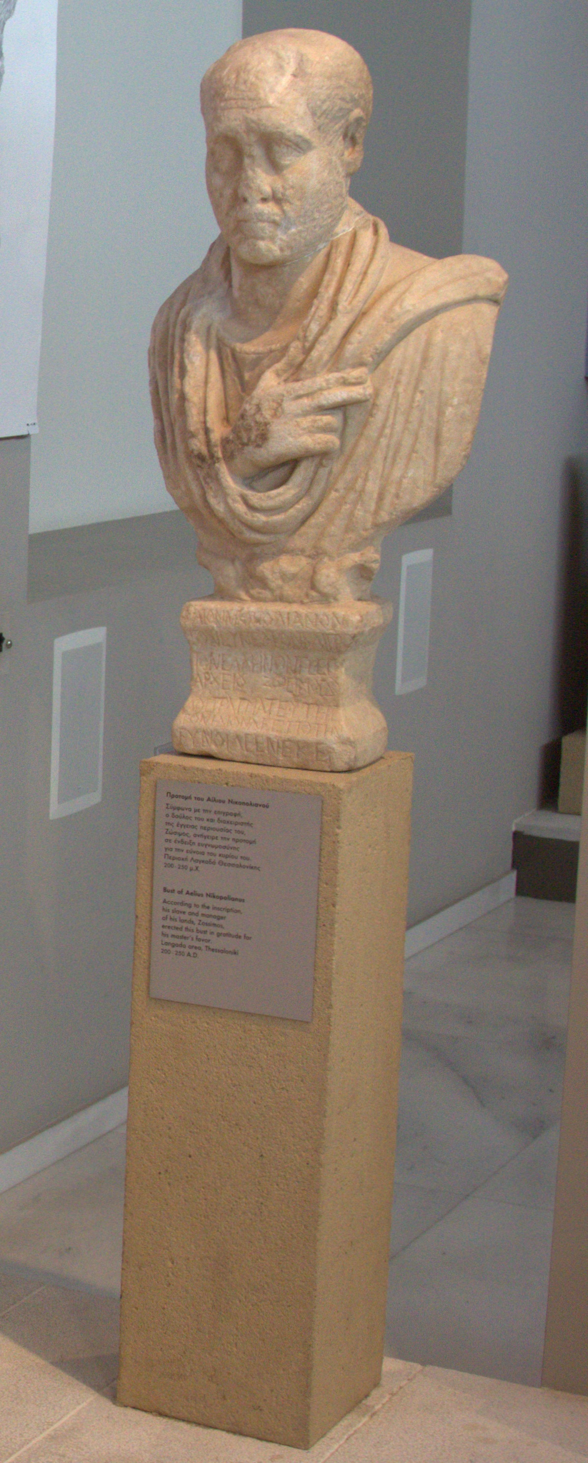 Detail cropped from Archaeological Museum of Thessaloniki, Greece (8724618785).jpg.